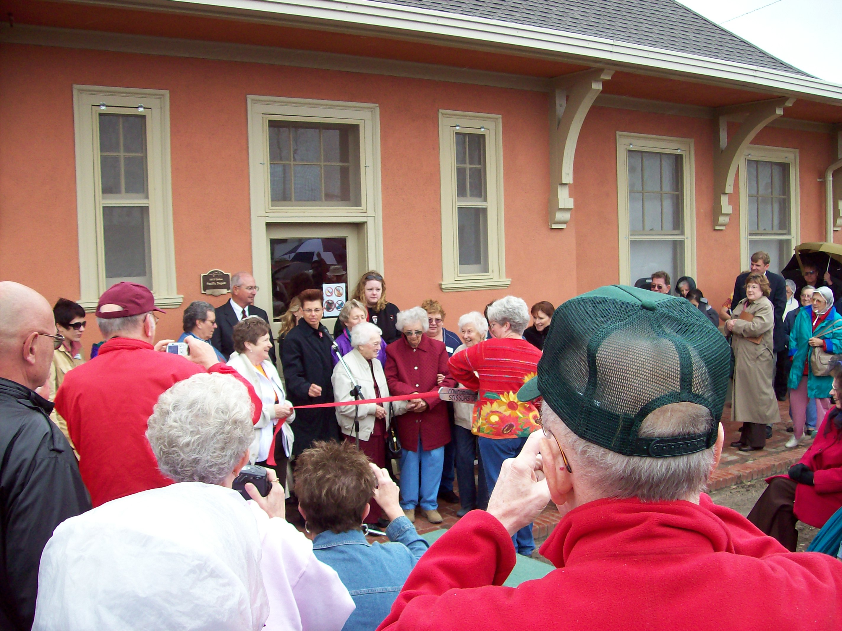 Grand Opening of the Orphan Train Musem, September 15, 2007. Photo by Paul McDonald, released to the Public Domain.